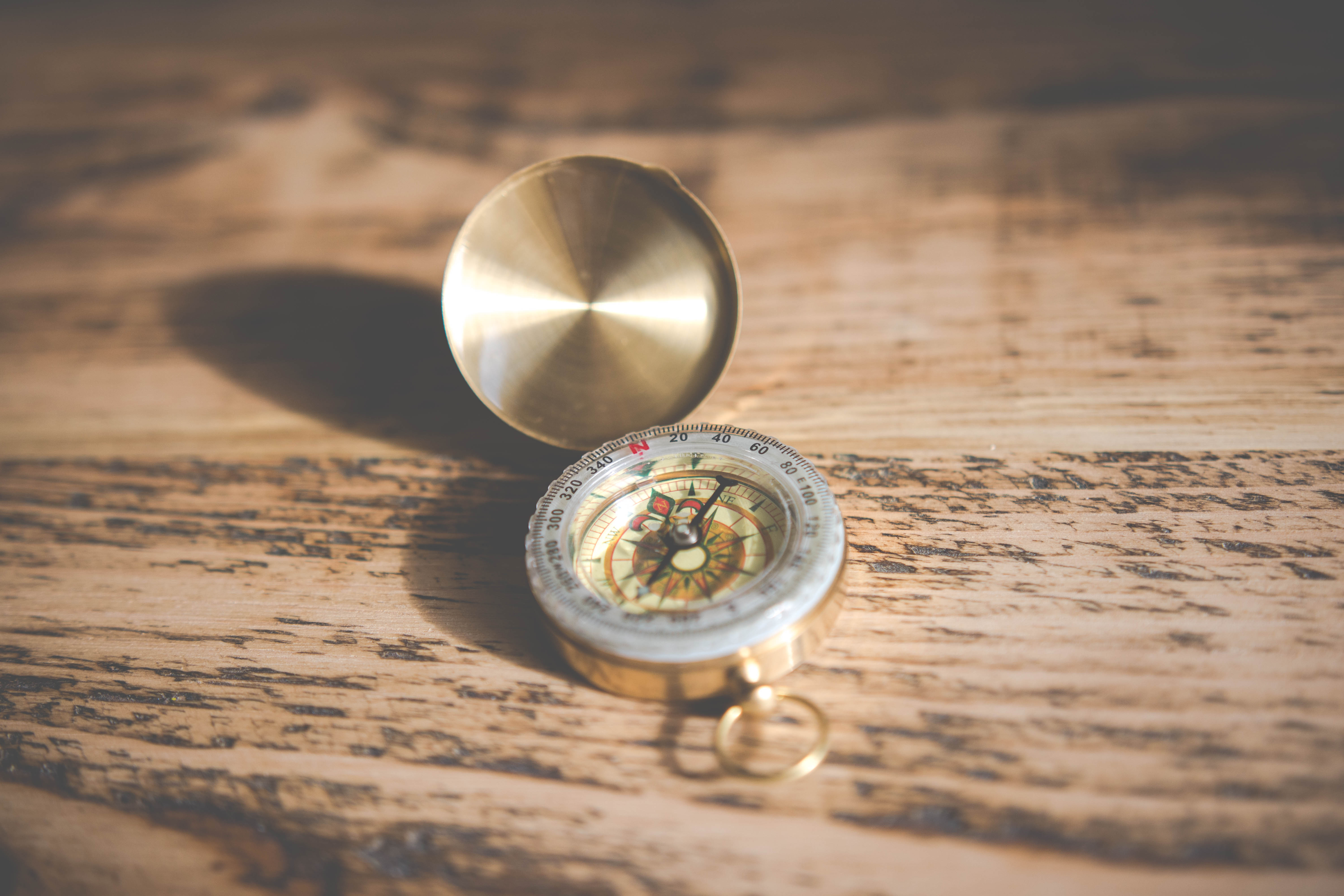 Chris Lawton 2017-05-20